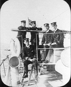 AWM caption : "ON BOARD HMS FAME, 1900. 1. LIEUT ROGER J.B. KEYES RN. 2. LIEUT WILFRED TOMKINSON RN (TEMP). 3. GUNNER GEORGE MASCULL RN OF HMS BARFLEUR 4. SUB-LIEUT ARTHUR T. BLACKWOOD RN LENT FROM FAME TO HMS JANUS.